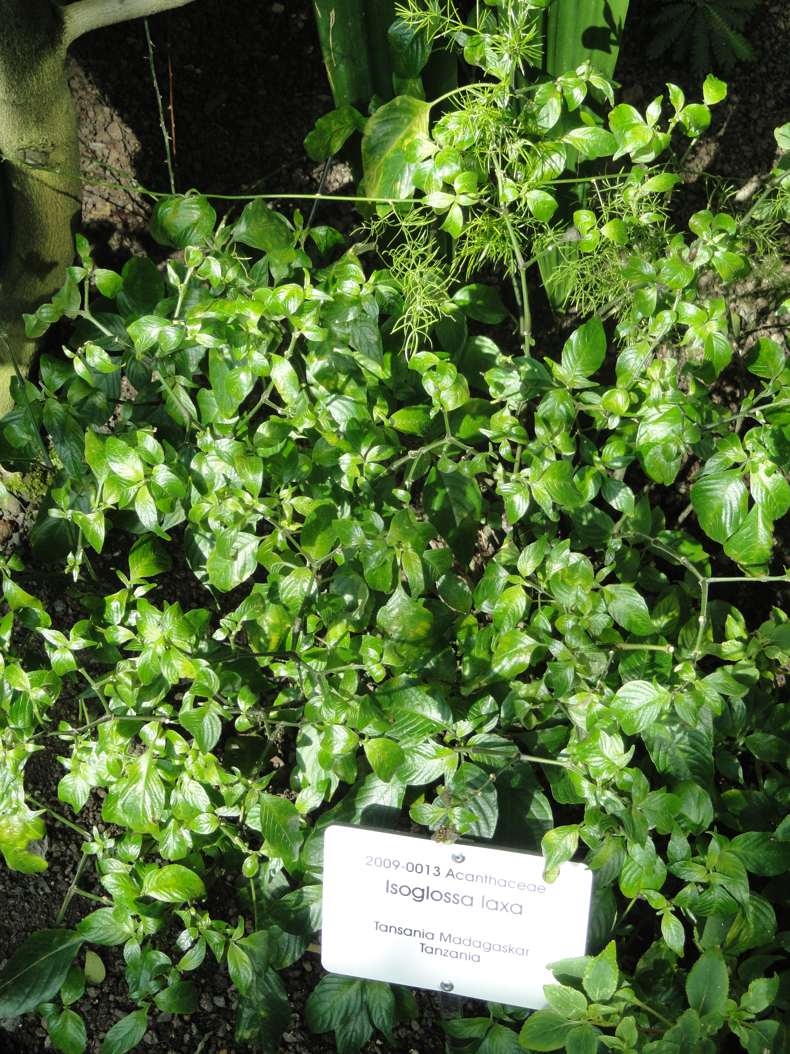 Botanical specimen. The University of Helsinki Botanical Garden at Kaisaniemi